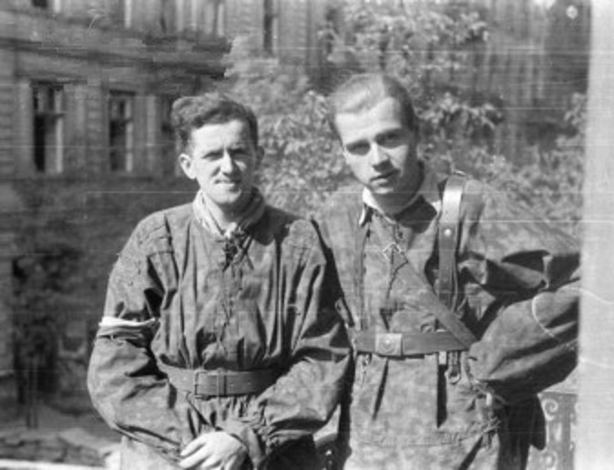 WarsawUprising: ppor. Wiesław Chrzanowski "Wiesław" from "Anna" Company of "Gustaw" Battalion in a townhouse at 16 Wilcza Street.